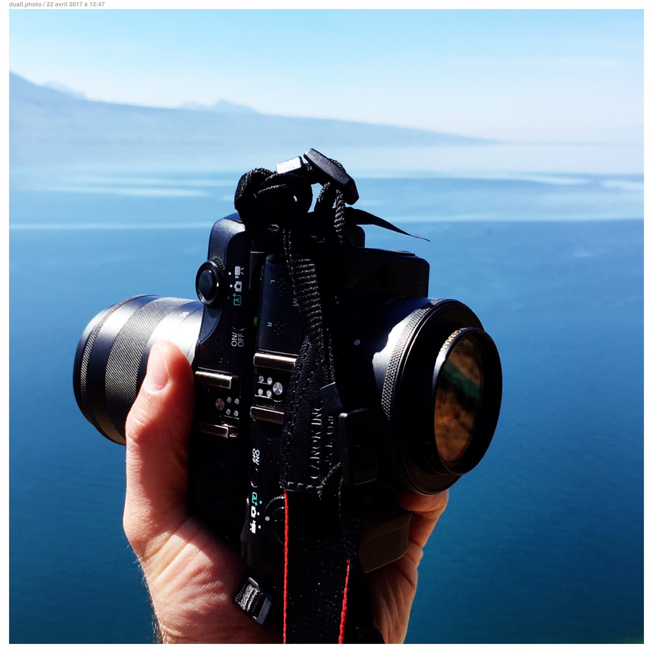 Based on two fused Canon EOS M cameras, this is an example of back-to-back dualcamera, meant for dualphotography.